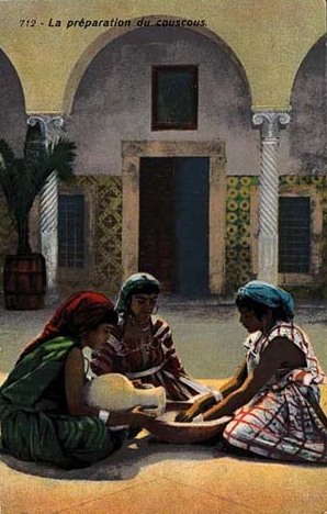 712 - The preparation of couscous.